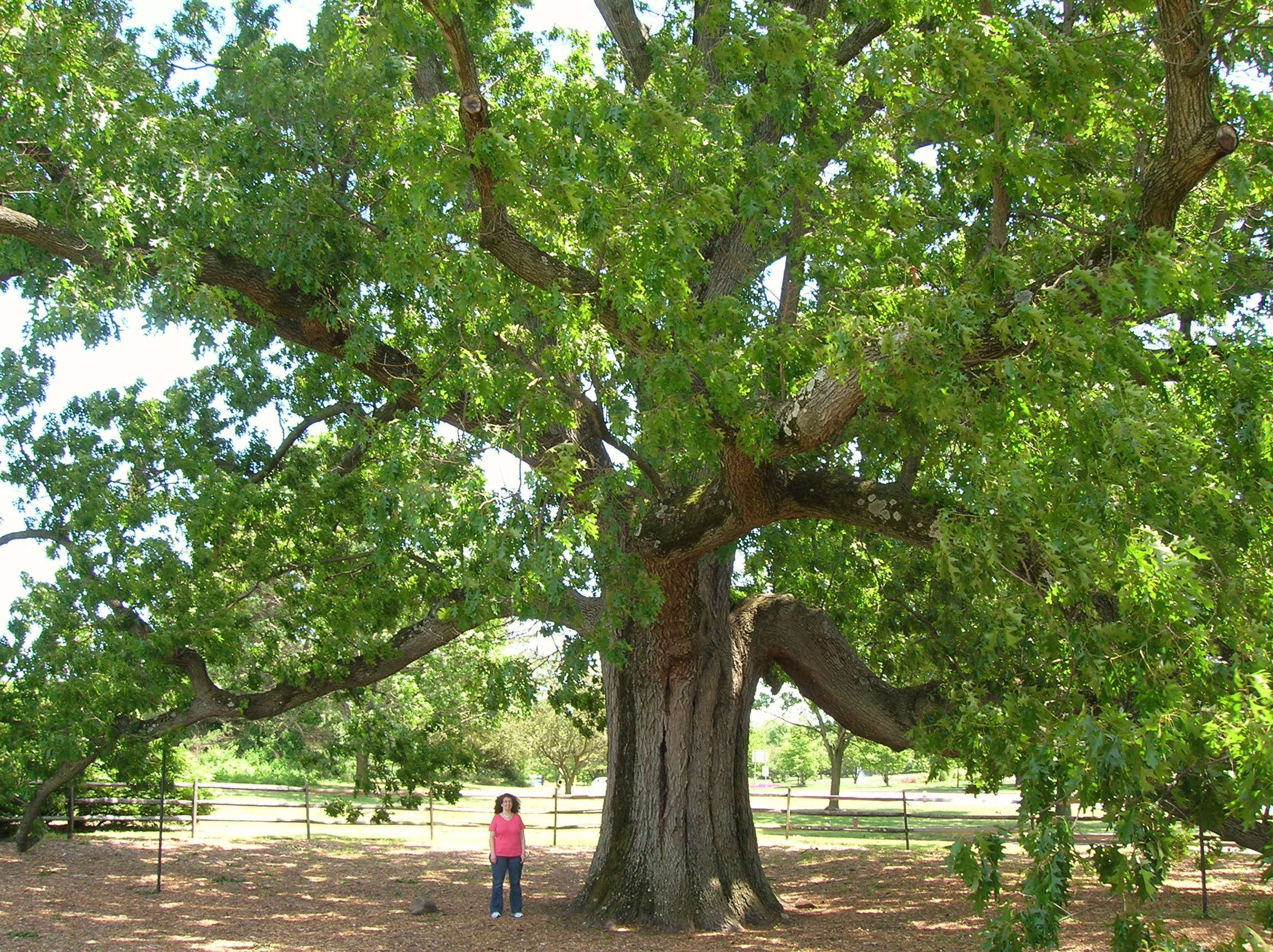 Photo taken in May 2013 of the Black Oak tree known as the Brearley Oak, located in Lawrence Township, New Jersey.